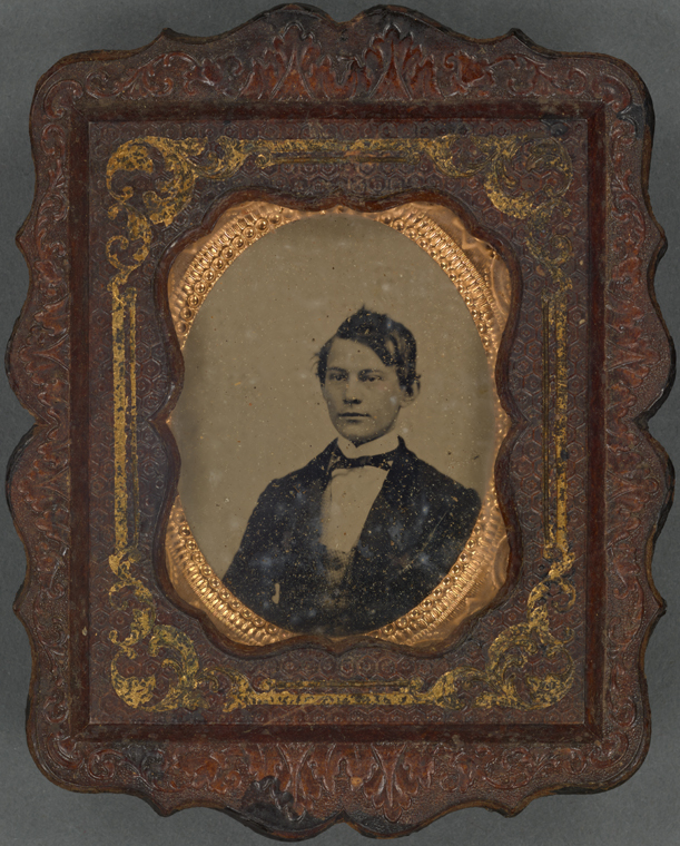 George G. Green, Clarksboro, New Jersey written on reverse